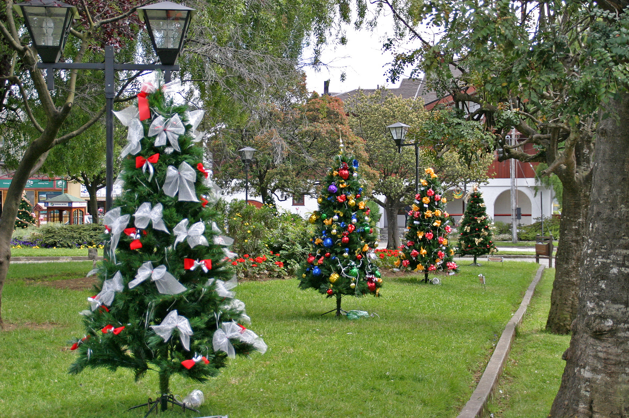 Decorated Christmas trees in midsummer. Seen on the Chilean island of Chiloe in the city of Castro